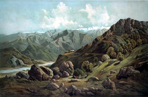 Image was originally uploaden on en.wiki by user:John Hill. His description was:"This image is taken from the book "Results of a scientific mission to India and high Asia - Atlas Part II." By Hermann, Albert and Robert von Schlagintweit-Sakünlünski, on an expedition made between the years 1854 and 1867, and published in 1861. So the book is well out of copyright. John Hill"